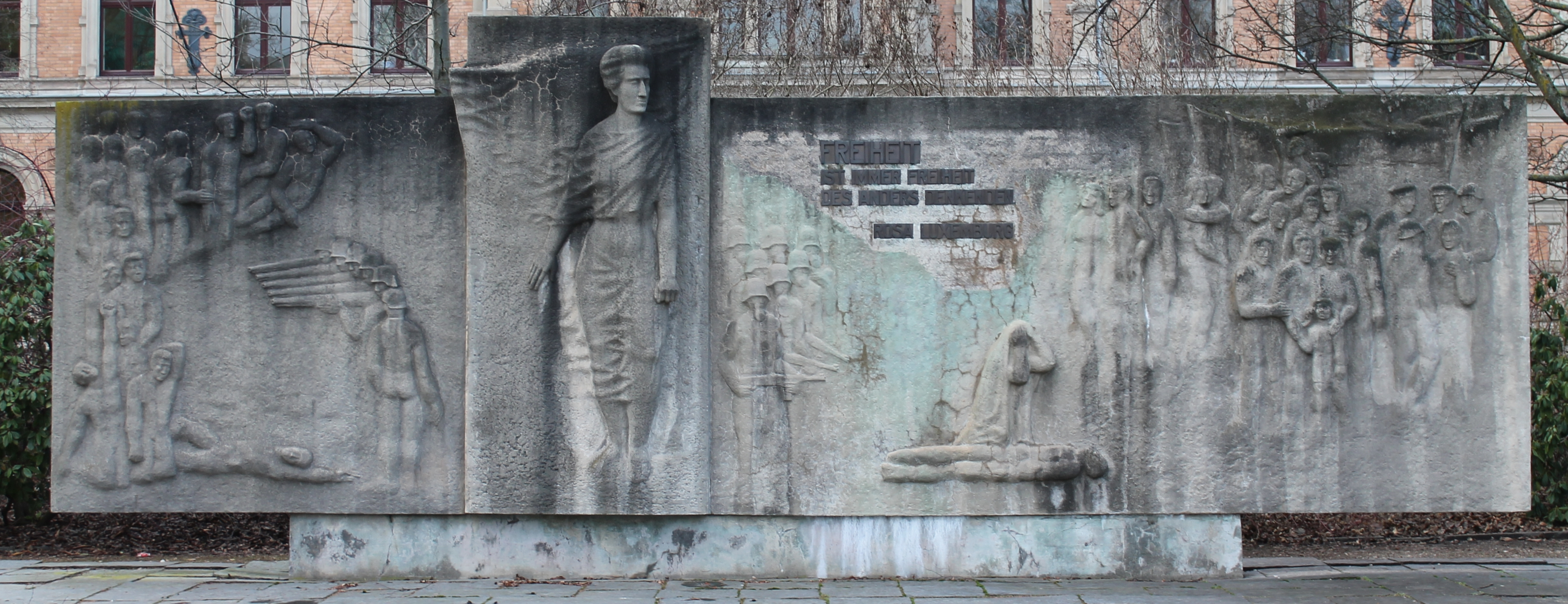 Rosa Luxemburg memorial in Zwickau, Saxony, Germany.